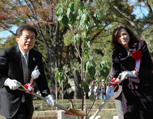 "Under Secretary of State for Public Diplomacy and Public Affairs Tara D. Sonenshine celebrated the enduring friendship between the United States and Japan during her Nov. 15-17 visit to Japan. Along with Acting Tokyo Governor Naoki Inose, the Under Secretary commemorated the American gift of 3,000 dogwood trees to the people of Japan in a ceremony in Yoyogi Park in Tokyo"